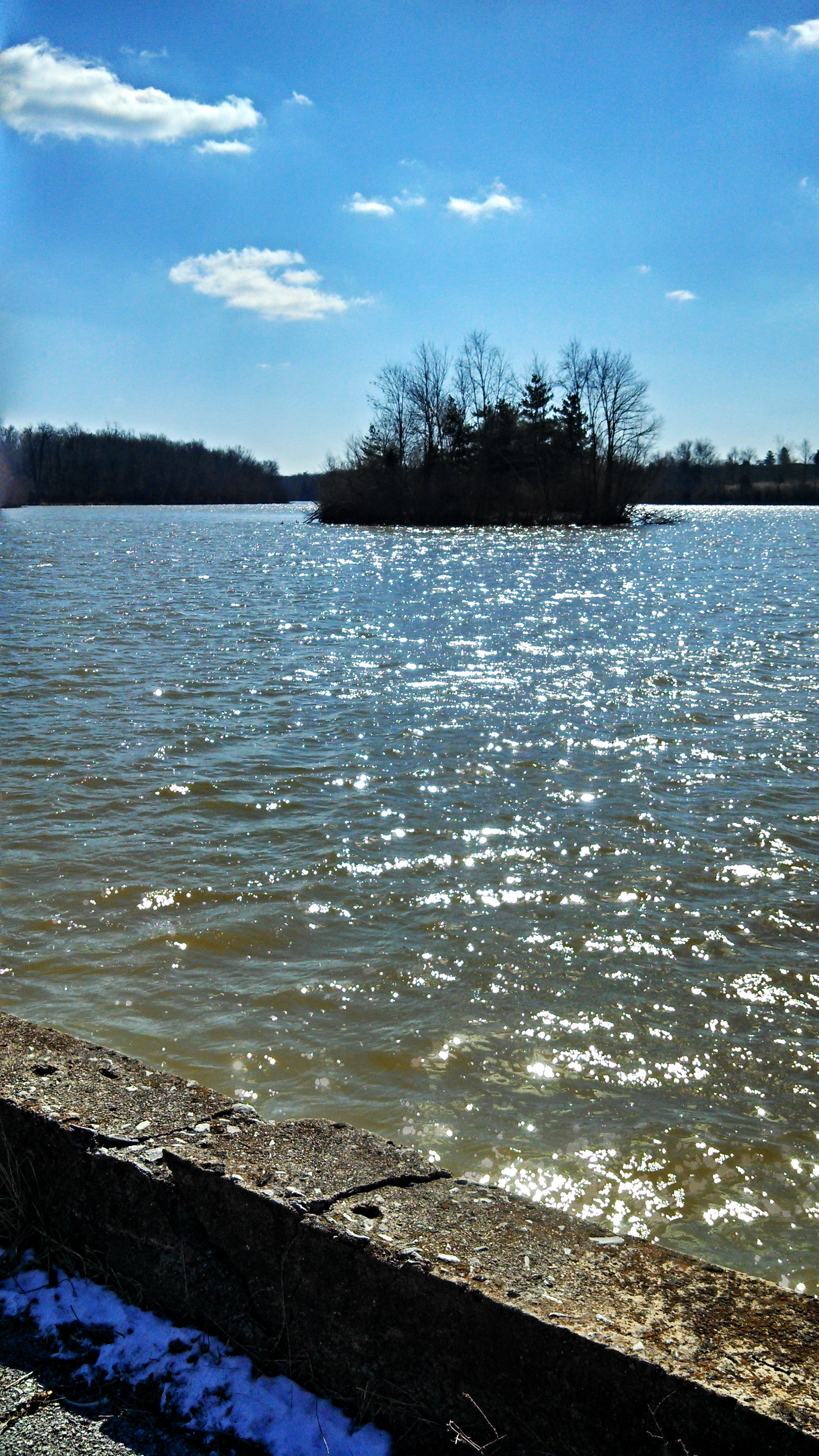 A view of Lake Reba in Richmond, Kentucky from the fishing dock.